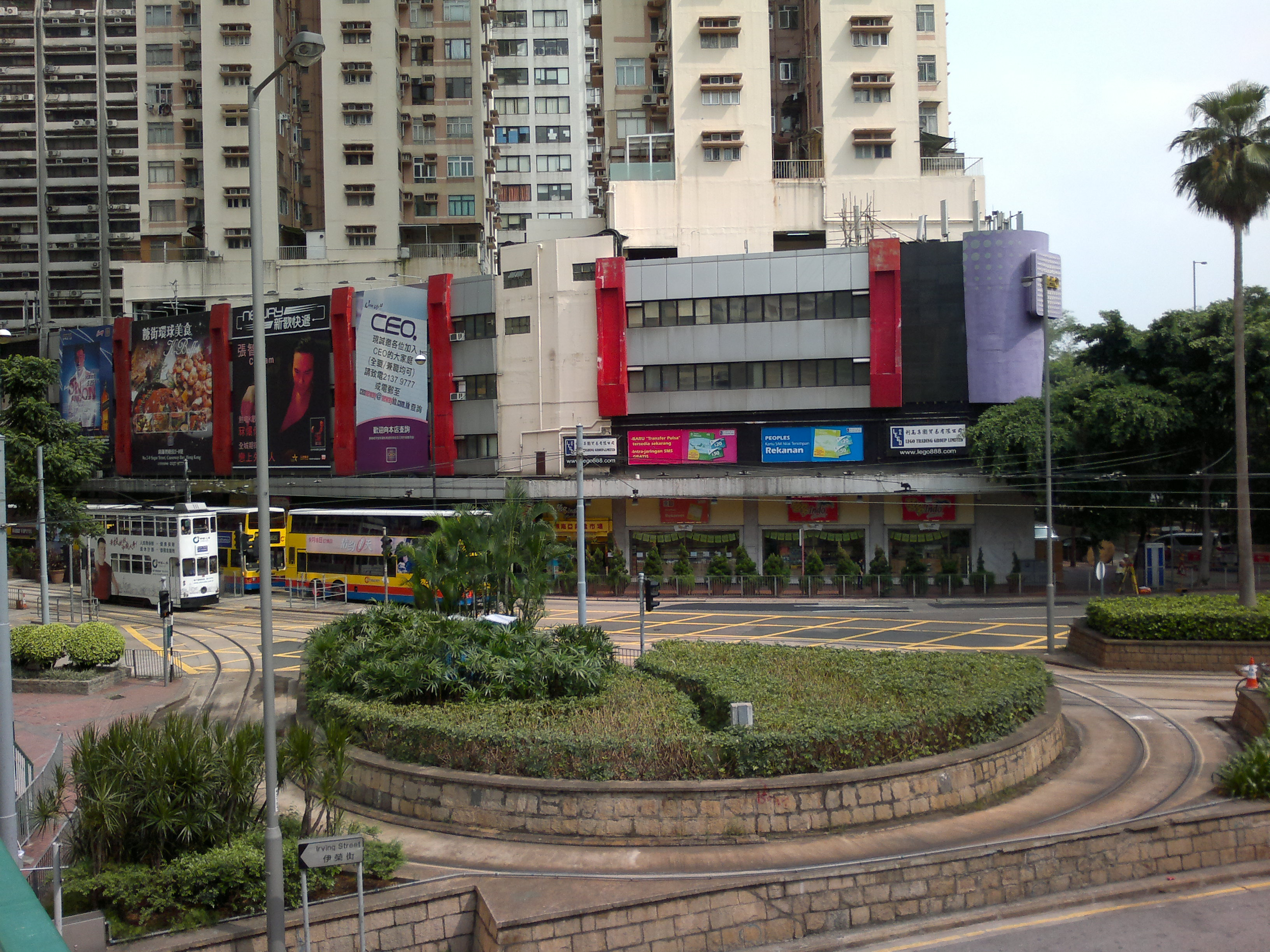 Causeway Bay Tramways Terminus